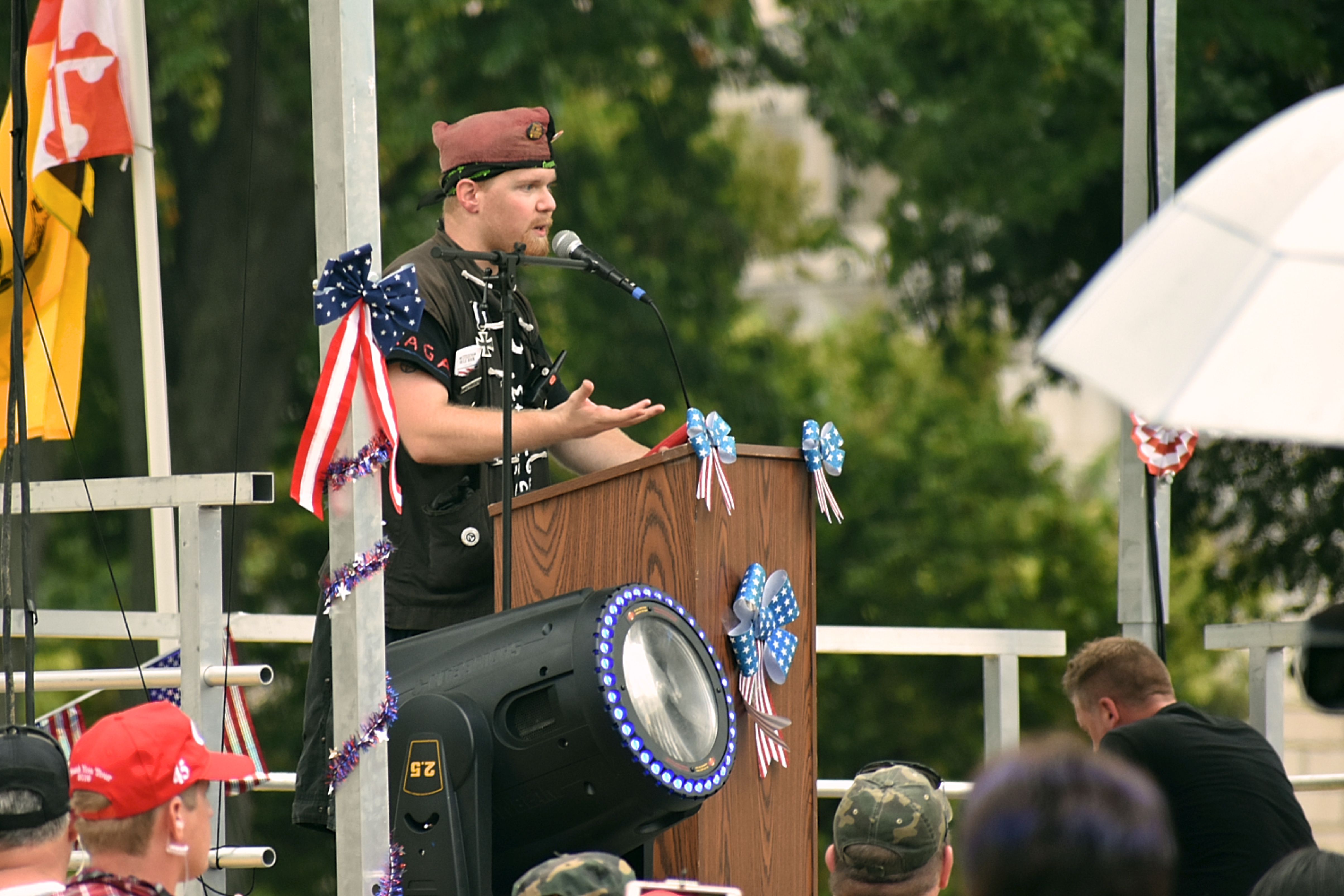 WASHINGTON DC, SEPT 16 2017: The "Mother of All Rallies" event in support of Donald Trump draws a small group to the National Mall.